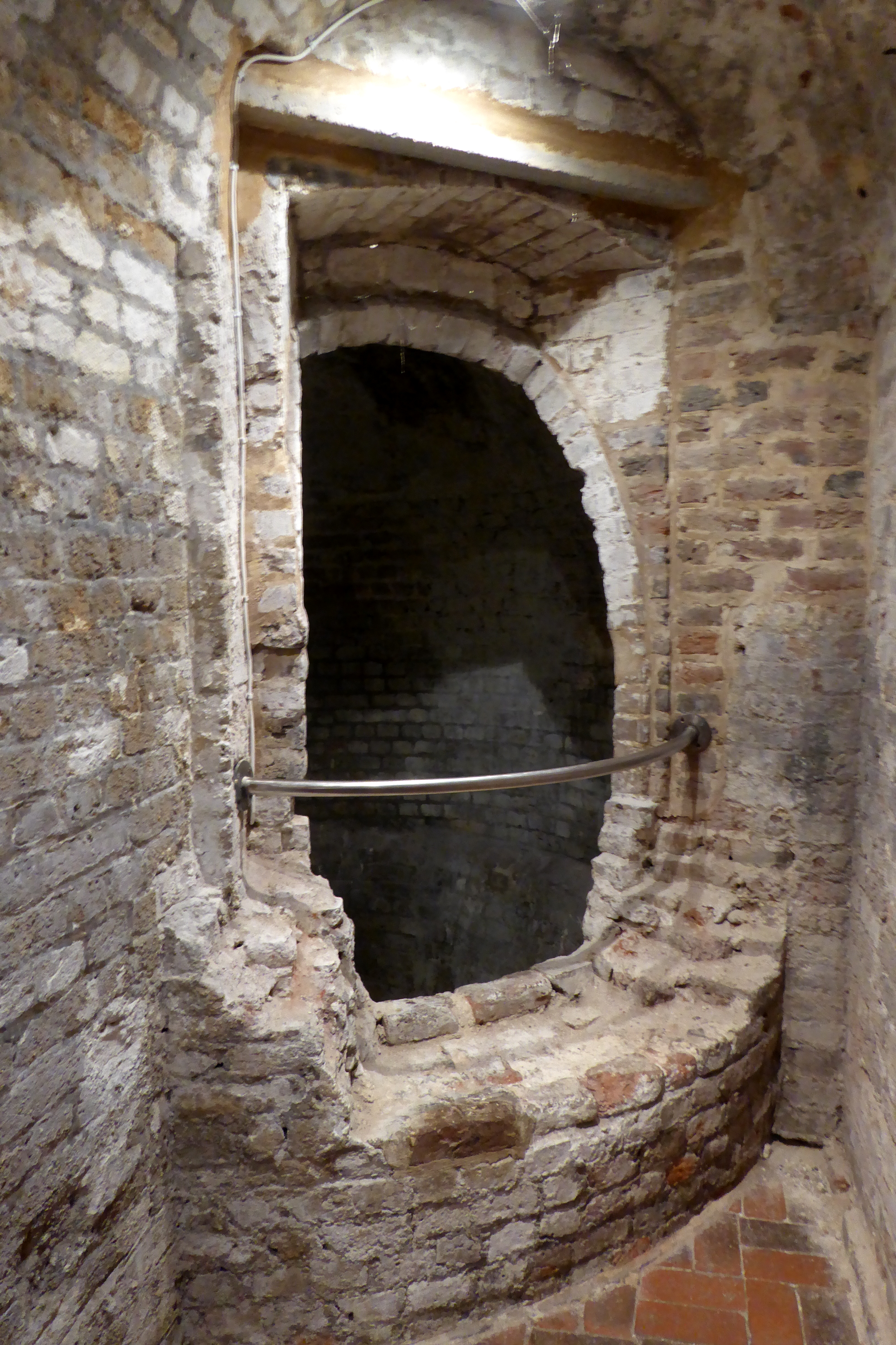 The ice well at Manor House Gardens in Lee, London Borough of Lewisham.